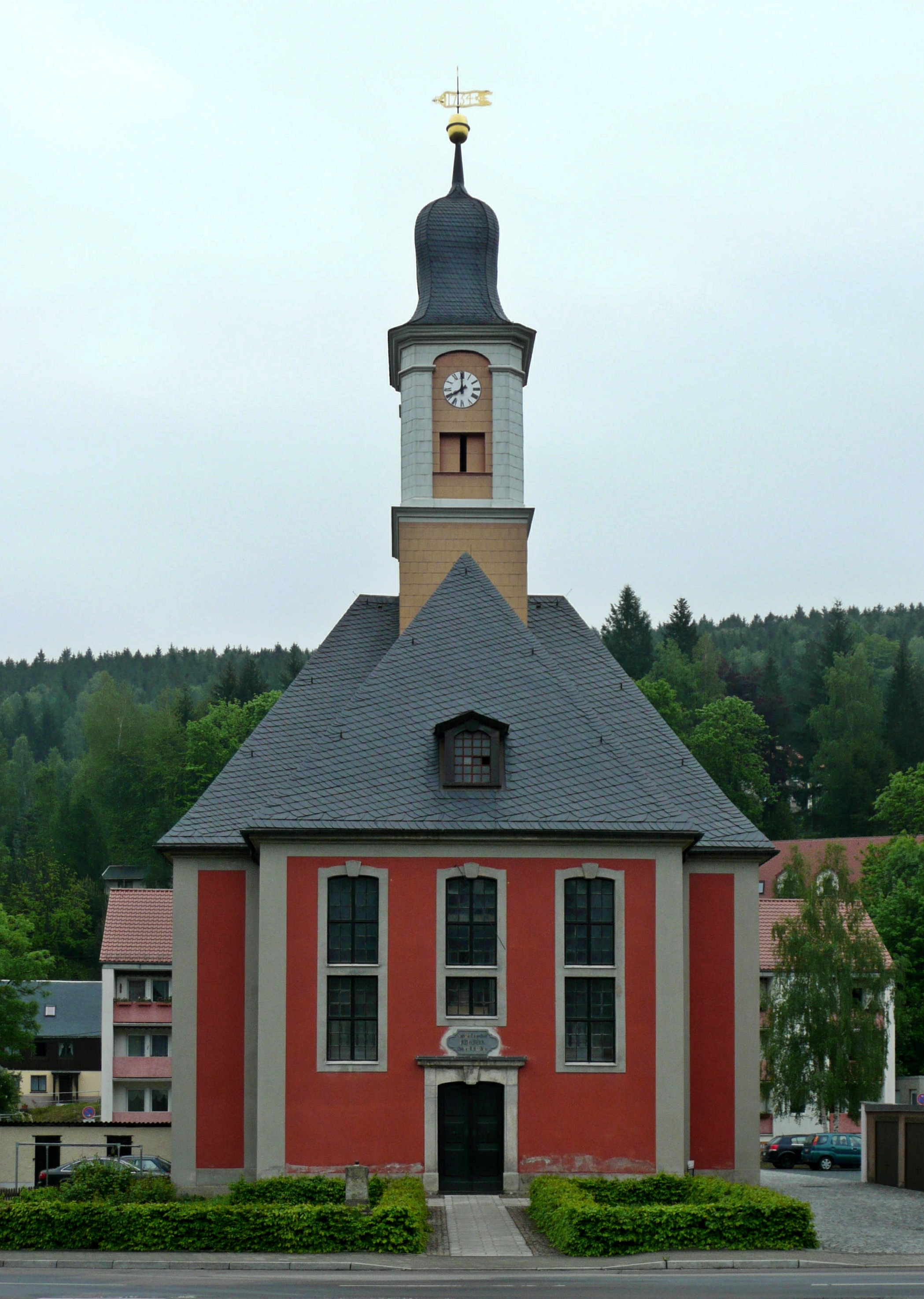 This image shows the "Trinity Church" in Schmiedeberg. The church was built by George Bähr from 1713 to 1716.